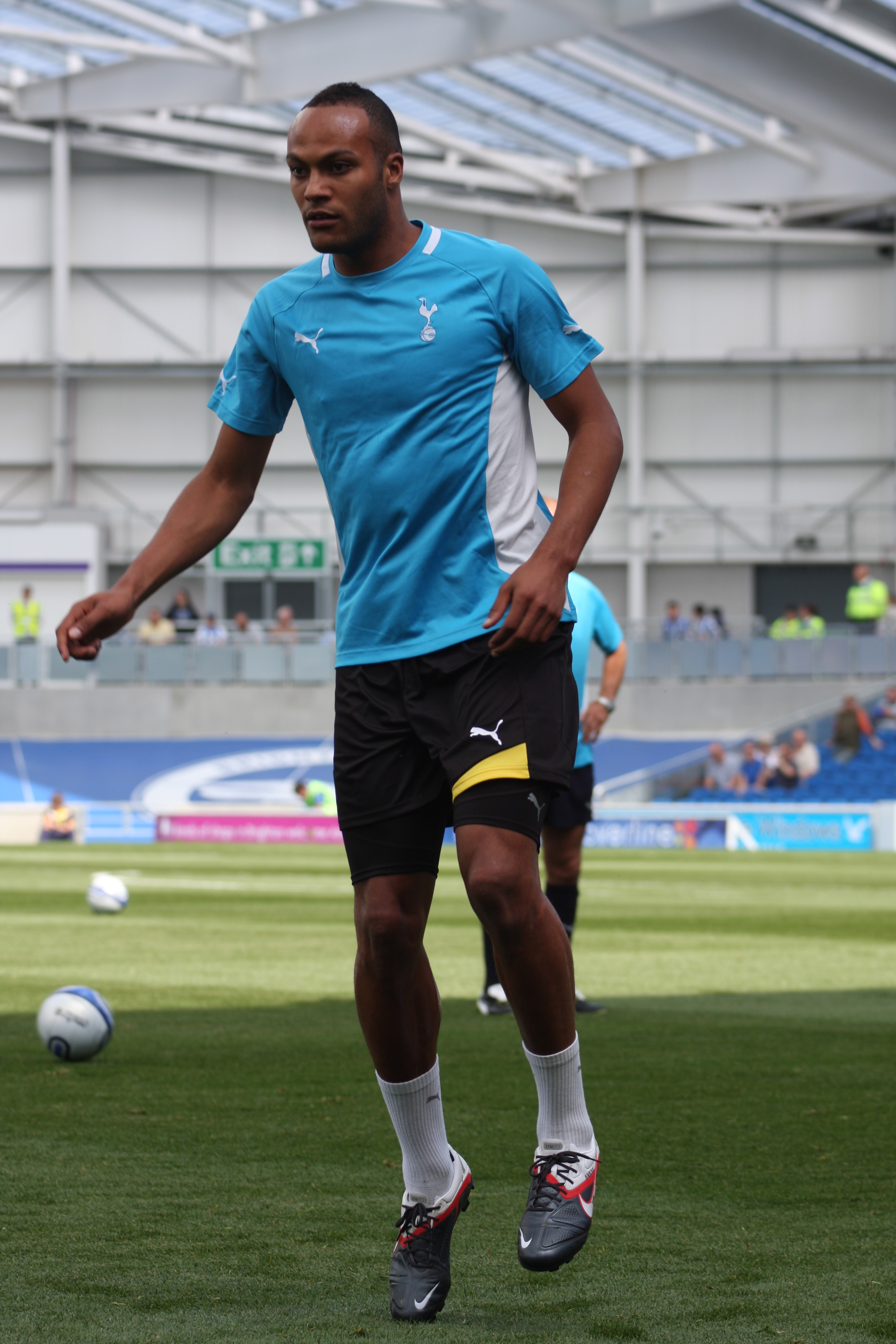 Younes Kaboul of Tottenham Hotspur